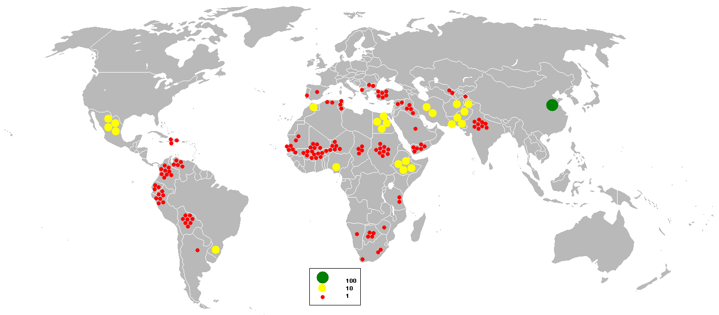 Ass (Equus africanus asinus) headcount in 2003 shown as a percentage of the top market (China, 8,499,000).